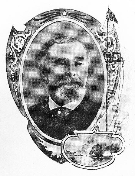 Daniel Dickinson Stevens, Quartermaster, United States Navy. Halftone photograph published in Deeds of Valor, Volume II, page 78, by the Perrien-Keydel Company, Detroit, Michigan, 1907. Stevens was awarded the Medal of Honor for heroism aboard USS Canonicus during the bombardment of Fort Fisher, North Carolina, in January 1865.